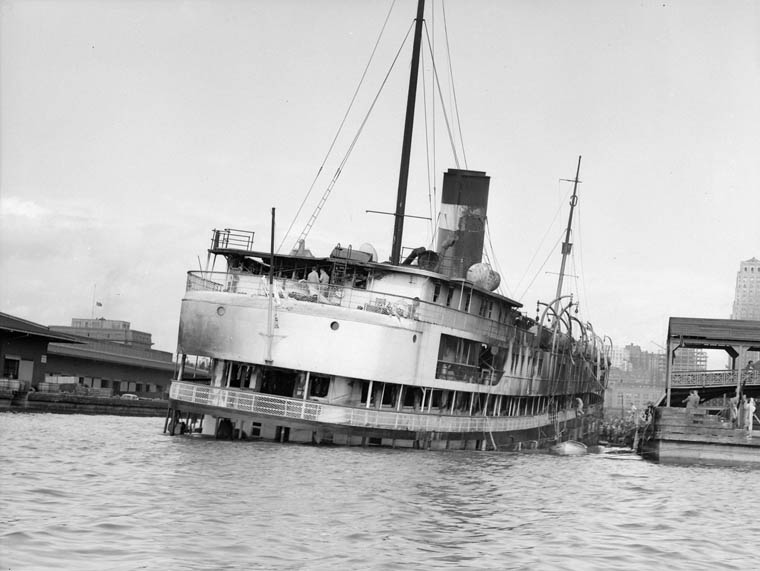 Wreck of the S.S. Noronic after the fire.